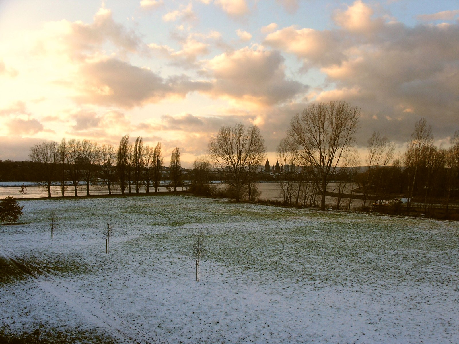 Mainspitze with Mainz in the background; photographers position at the railroad bridge across the Rhine.